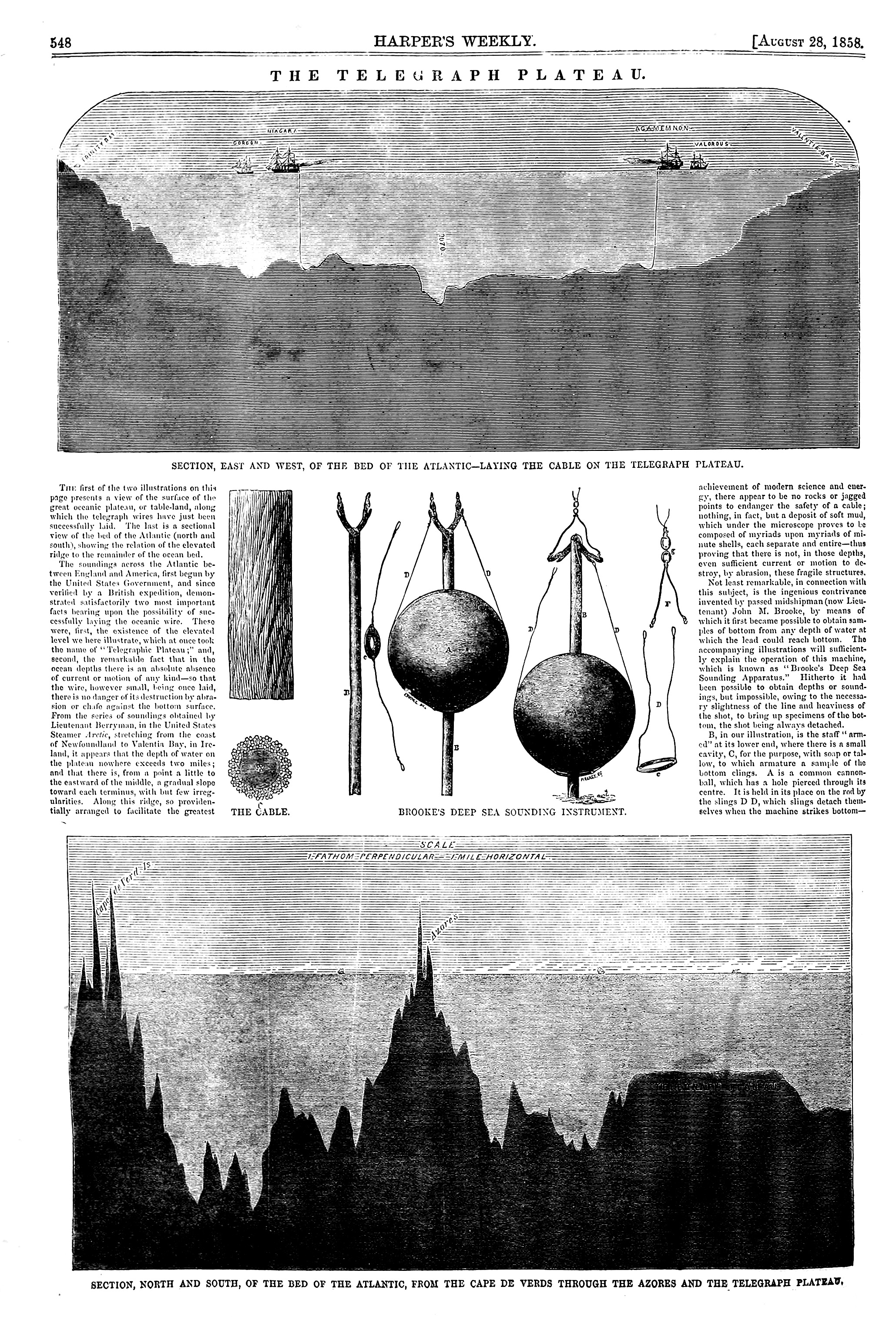 Page of the American weekly newspaper Harper’s Weekly with cuttings of the bottom morphology of the central Atlantic Ocean (top: East-West profile along the “Telegraph Pleateau” between Trinity Bay, Newfoundland, and Valentia Bay, Ireland; bottom: North-South profile with Capverdes, Azores, and “Telegraph Plateau”) and an early sediment sampling device. The device conists of a rod B that is hollow at its lower end. The rod is put into a cannon ball which is pierced by a bore. The cannon ball is hold by a sling which, in turn, is hold by movable hooks at the upper end of the rod. When the device reaches the ground and eventually gets stuck into the sediment the hooks will flap down and release the sling. Then the rod with the sediment sample can be pulled out of the cannon ball and hauled up to the surface.